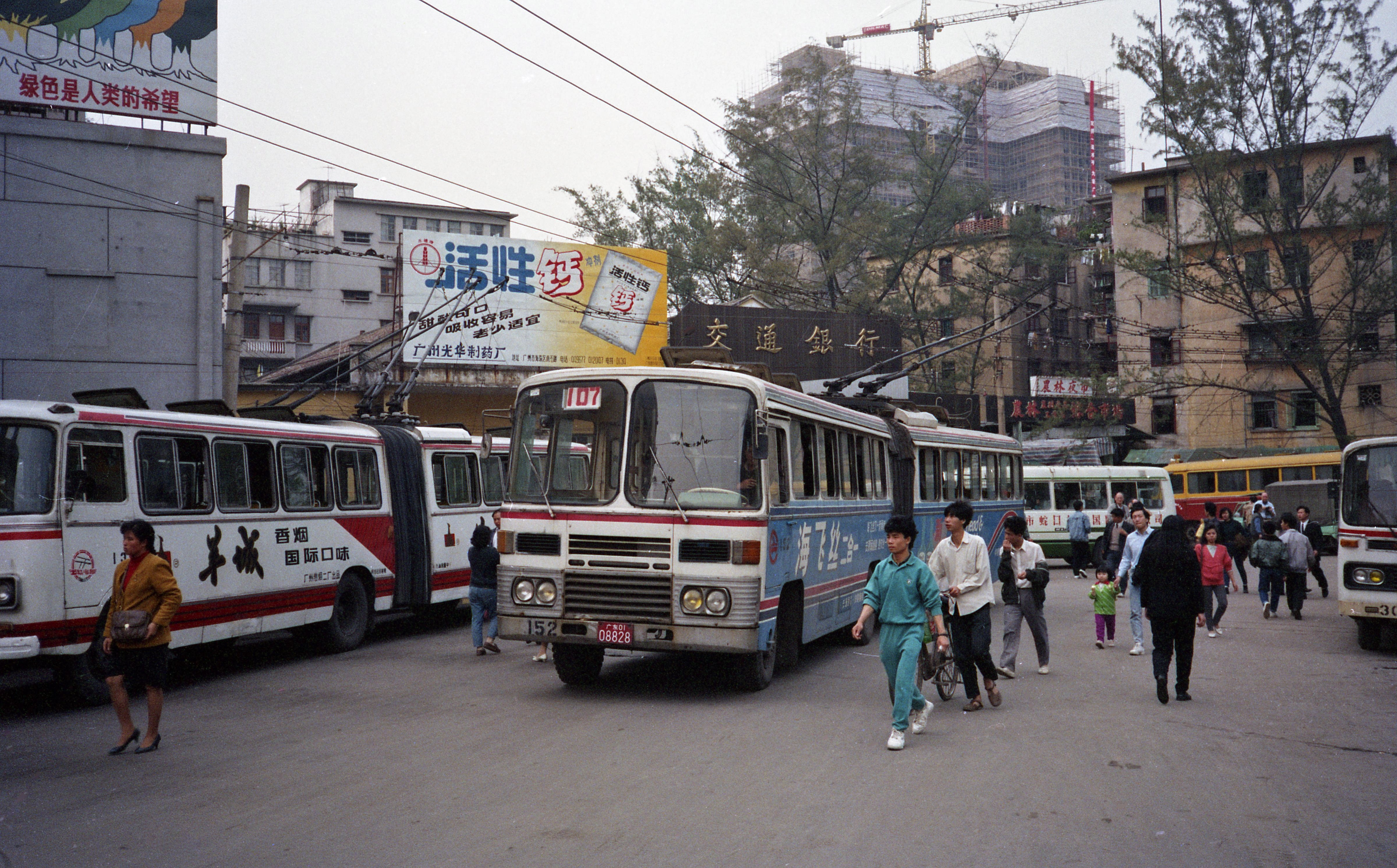 Trolleybus 152 in Guangzhou, China, a locally built model-GZ660 trolleybus. In service on route 107, No. 152 is laying over at a terminus (maybe Dongshan terminus) in 1991. On the left, laying over to 152's right, is trolleybus 135, on route 102. 粵語: 廣州東山口電車總站，1991年4月